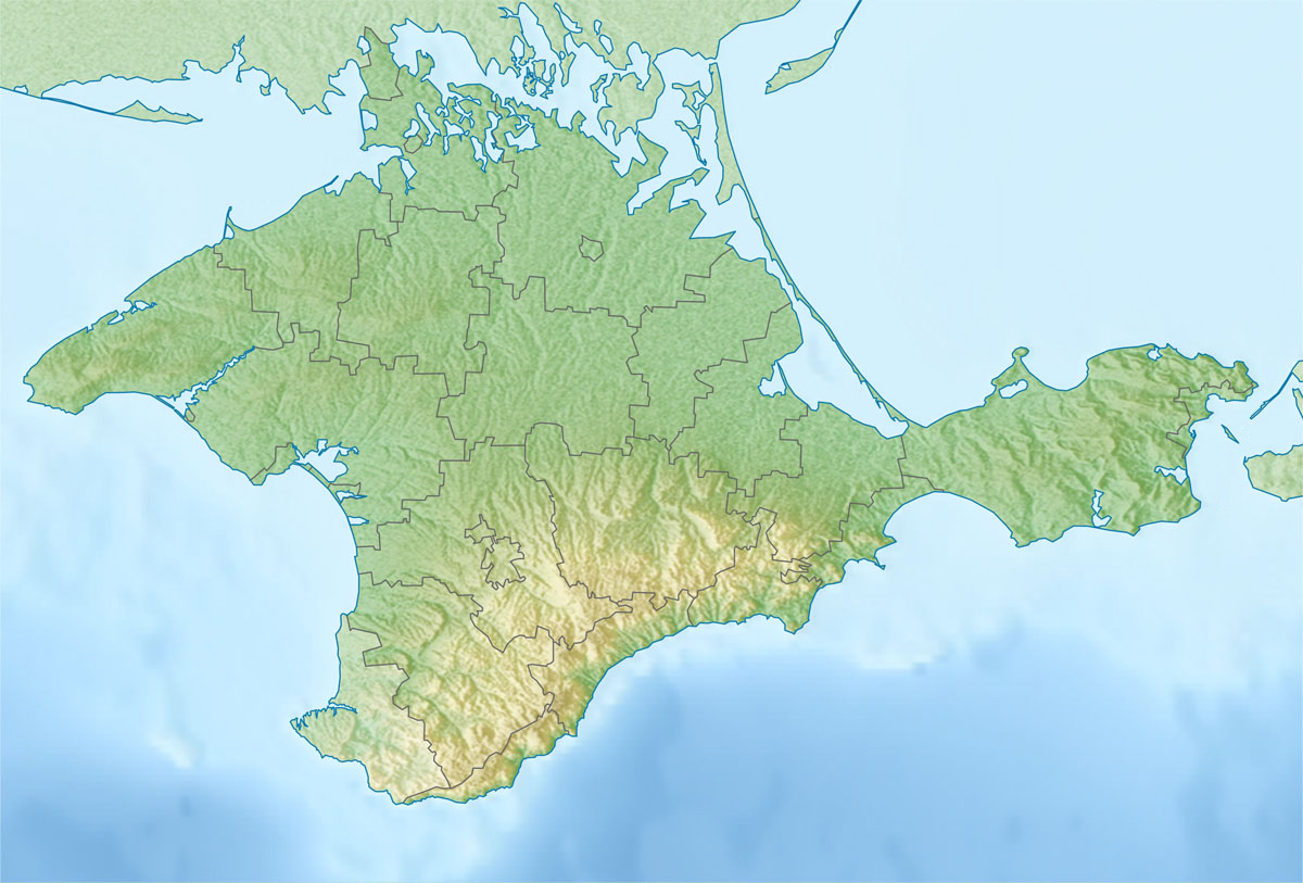 Physical map of the CrimeaConformal projection, standard parallels — 45°15's.W.Template parameters (coordinates of the edges): top = 46.3 bottom = 44.2 left = 32.4 right = 36.8